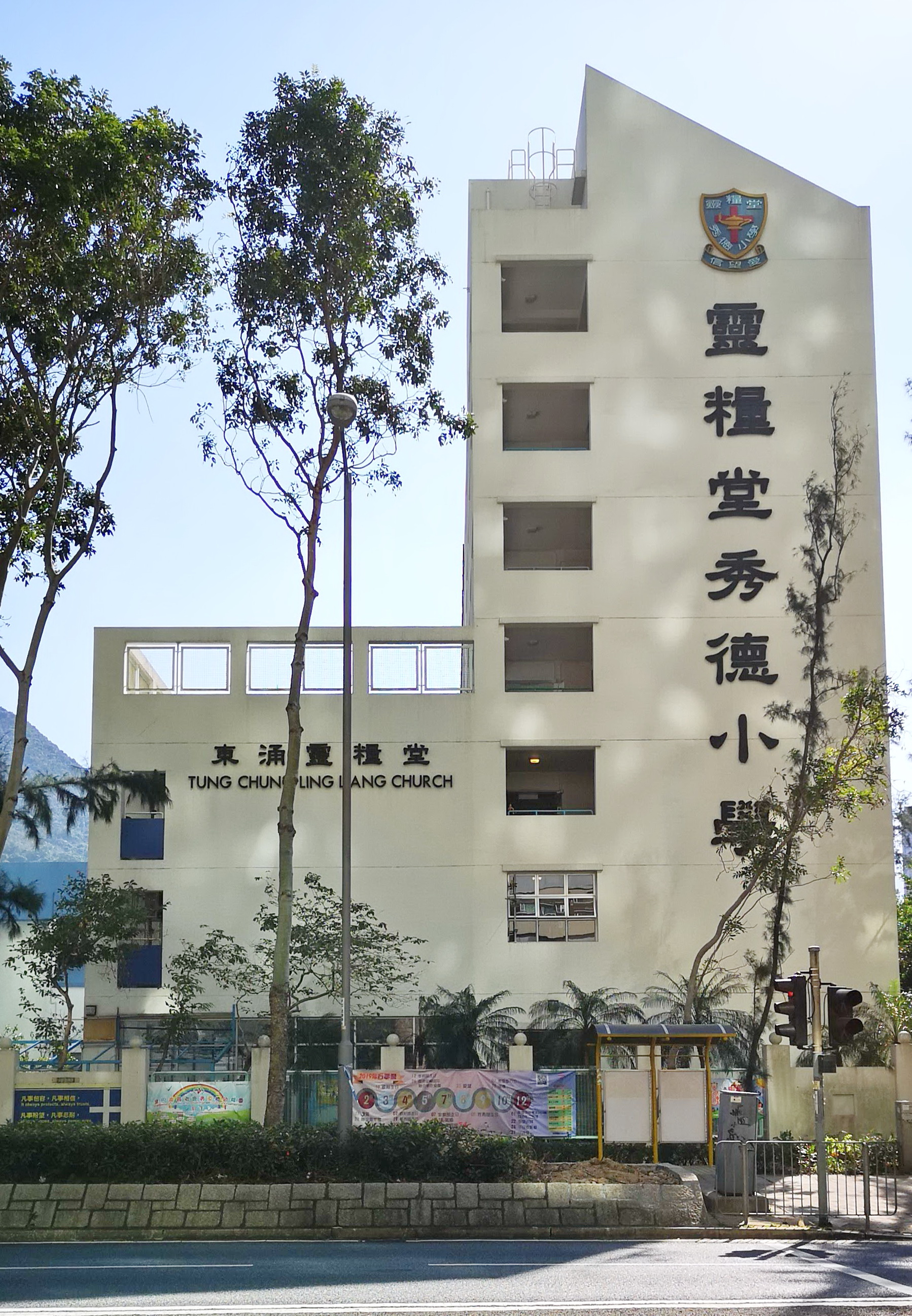 Ling Liang Church Sau Tak Primary School, Tung Chung, Hong Kong.